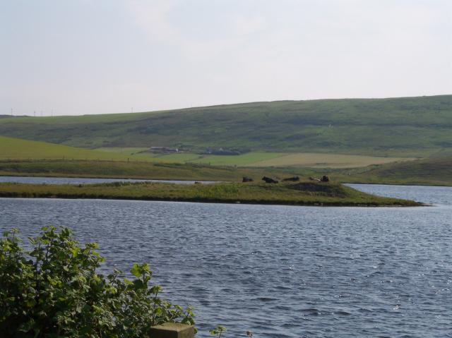 Law Ting Holm in Tingwall Loch. This islet was the place for annual parliament gatherings or "law tings" in the 12th and 13th centuries.